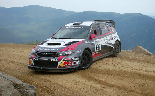 Travis Pastrana and co-driver Christine Beavis in their 2014 Subaru Impreza WRX STi at the 2014 Mount Washington Hillclimb Auto Race (AKA Climb to the Clouds) in New Hampshire. Round 5 of the 2014 Rally America championship.